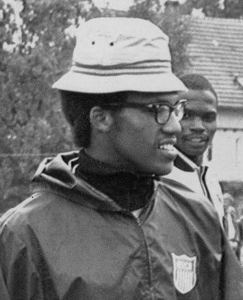 LG11 '72 Wire Photo LARRY BURTON Rhodesian Track Munich Olympics Athlete Boycott